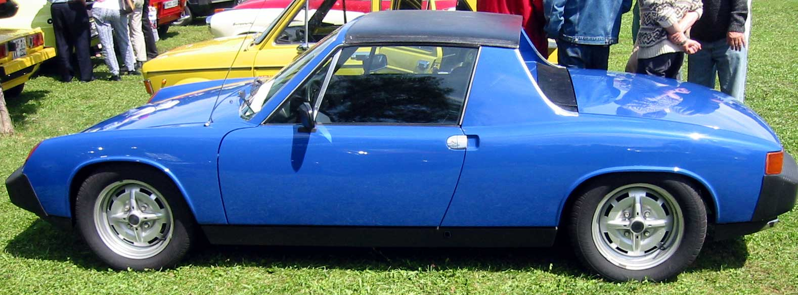 Porsche 914